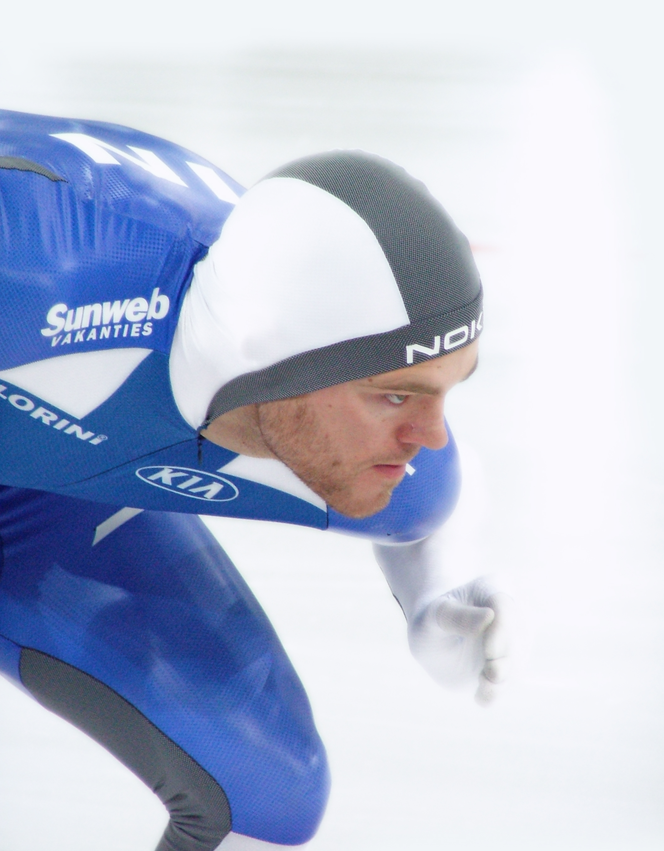 Risto Rosendahl, World Cup Hamar January 26th 2008